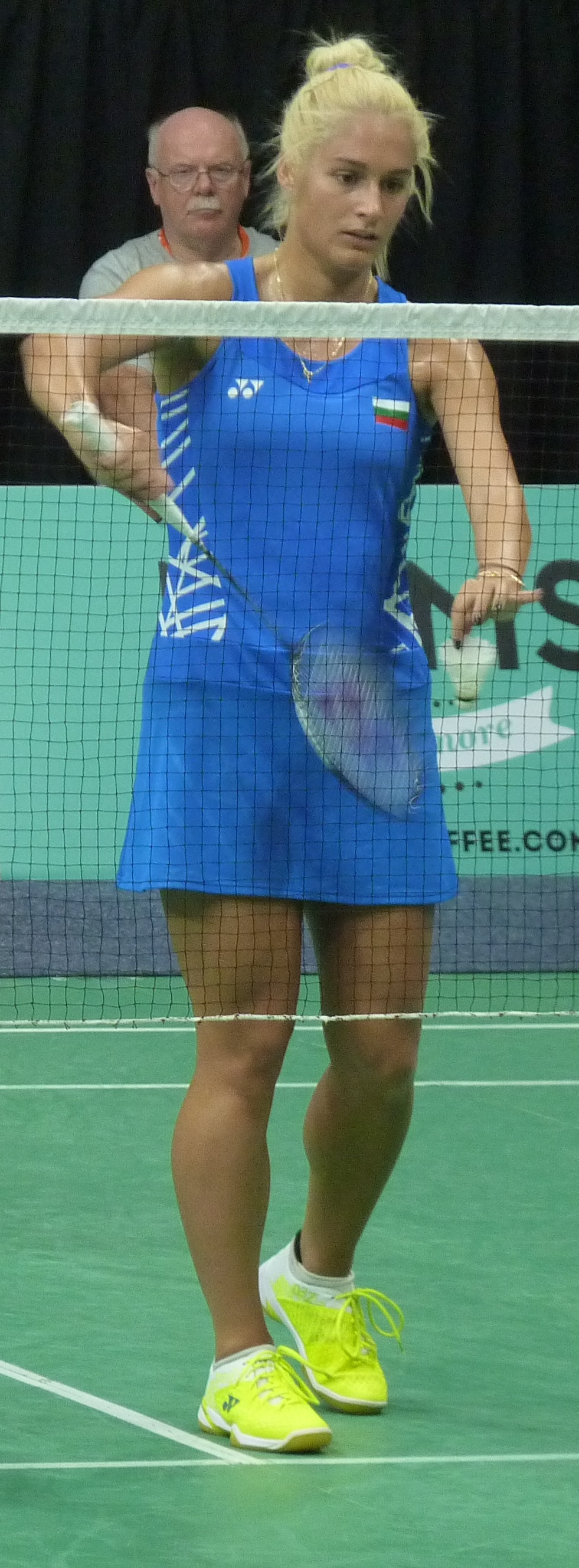 Gabriela Stoeva (BUL)